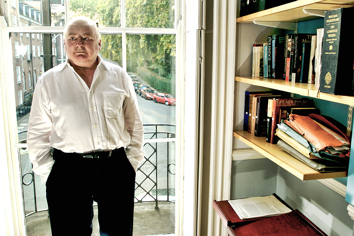 Peter Ackroyd